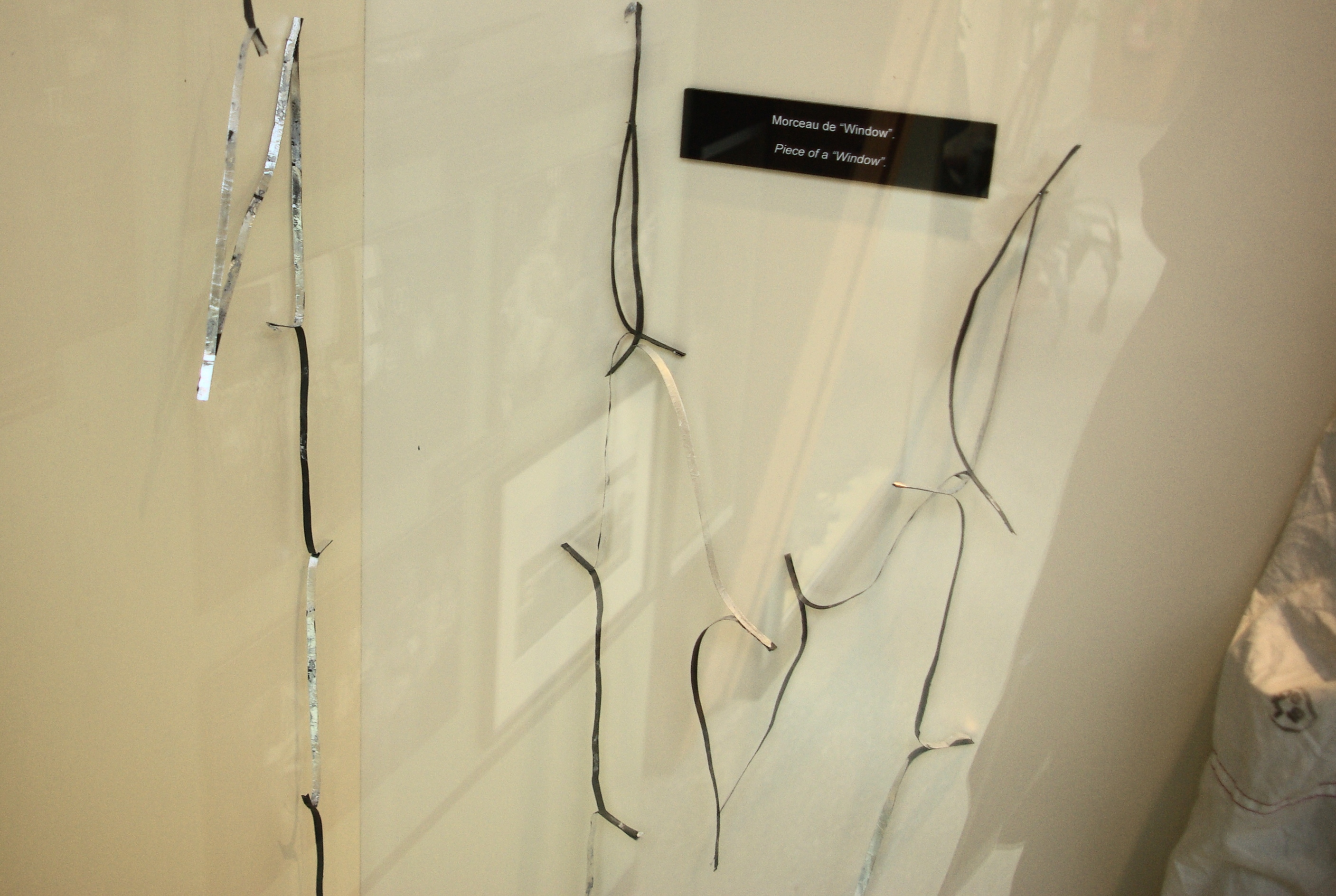 Piece of a "Window" (chaff used during the Second World War).